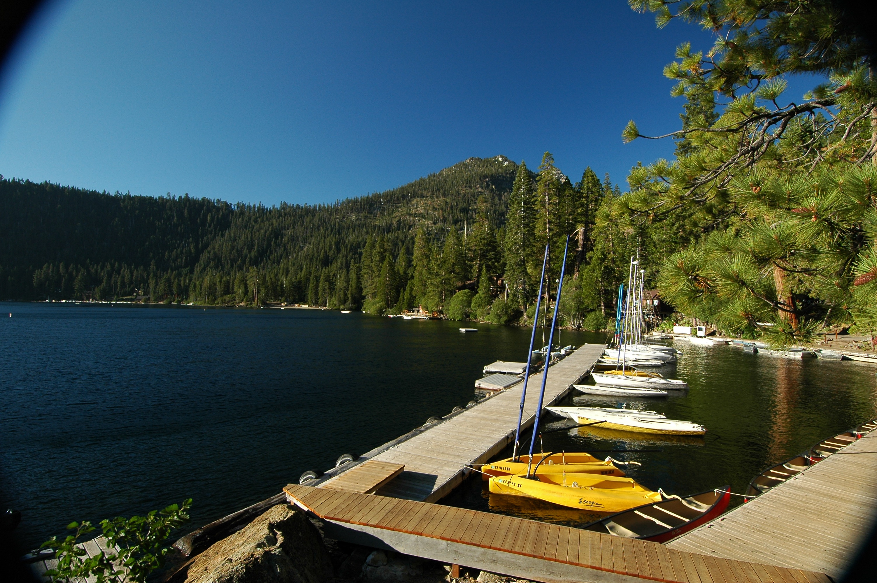 Free use image of Stanford Sierra Camp's Boat Dock on Fallen Leaf Lake